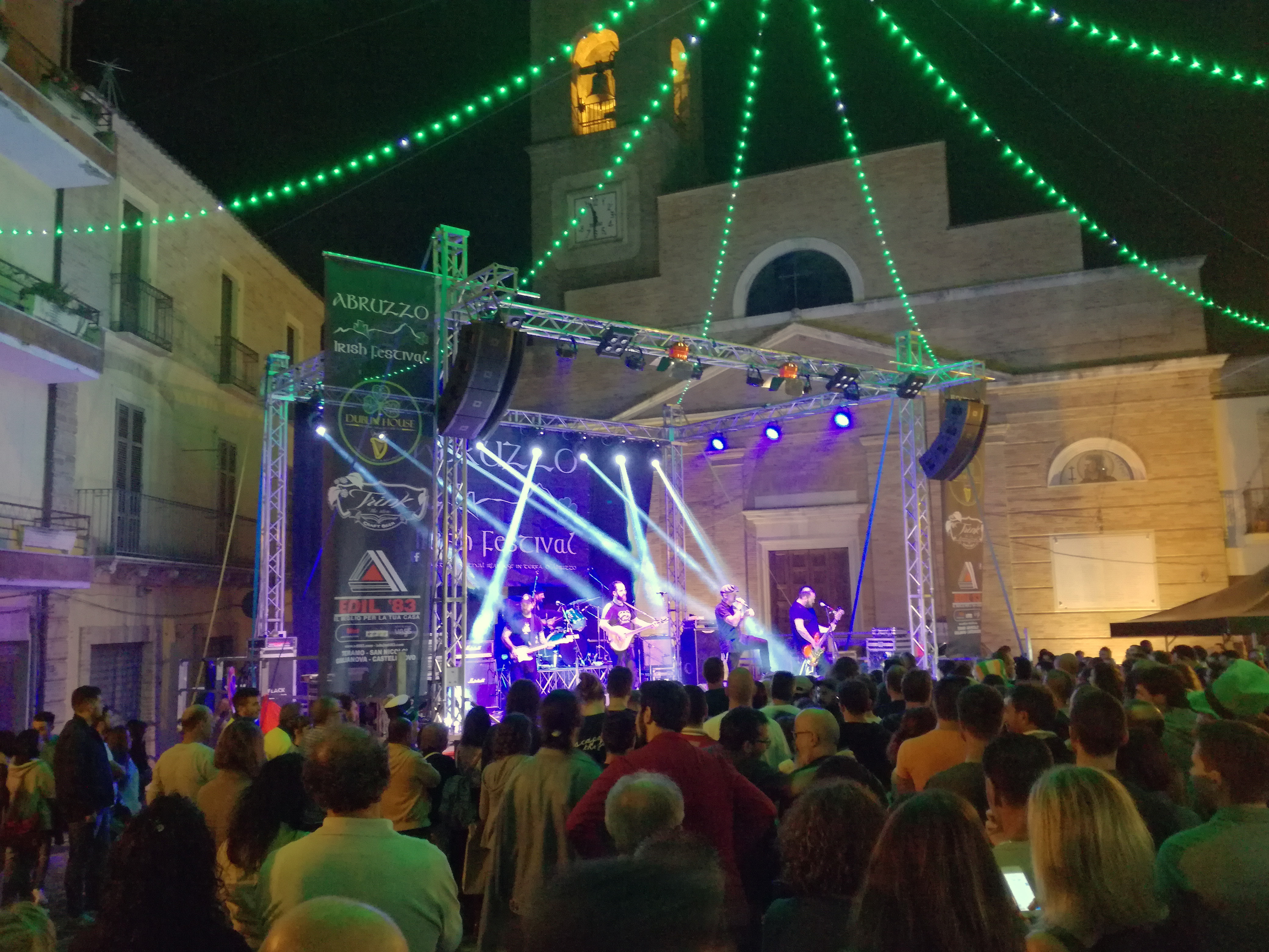 The Rumjacks at 2016 Abruzzo Irish Festival in Notaresco (TE)